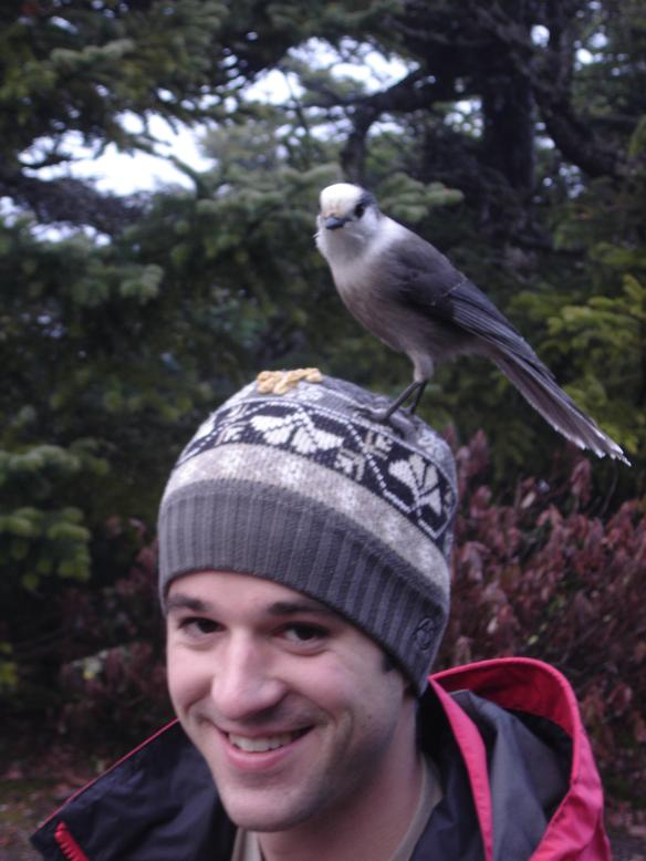 Photo of a friendly gray jay taken by B. Bernard on 11/11/06 on Old Speck Mountain, Maine, USA.